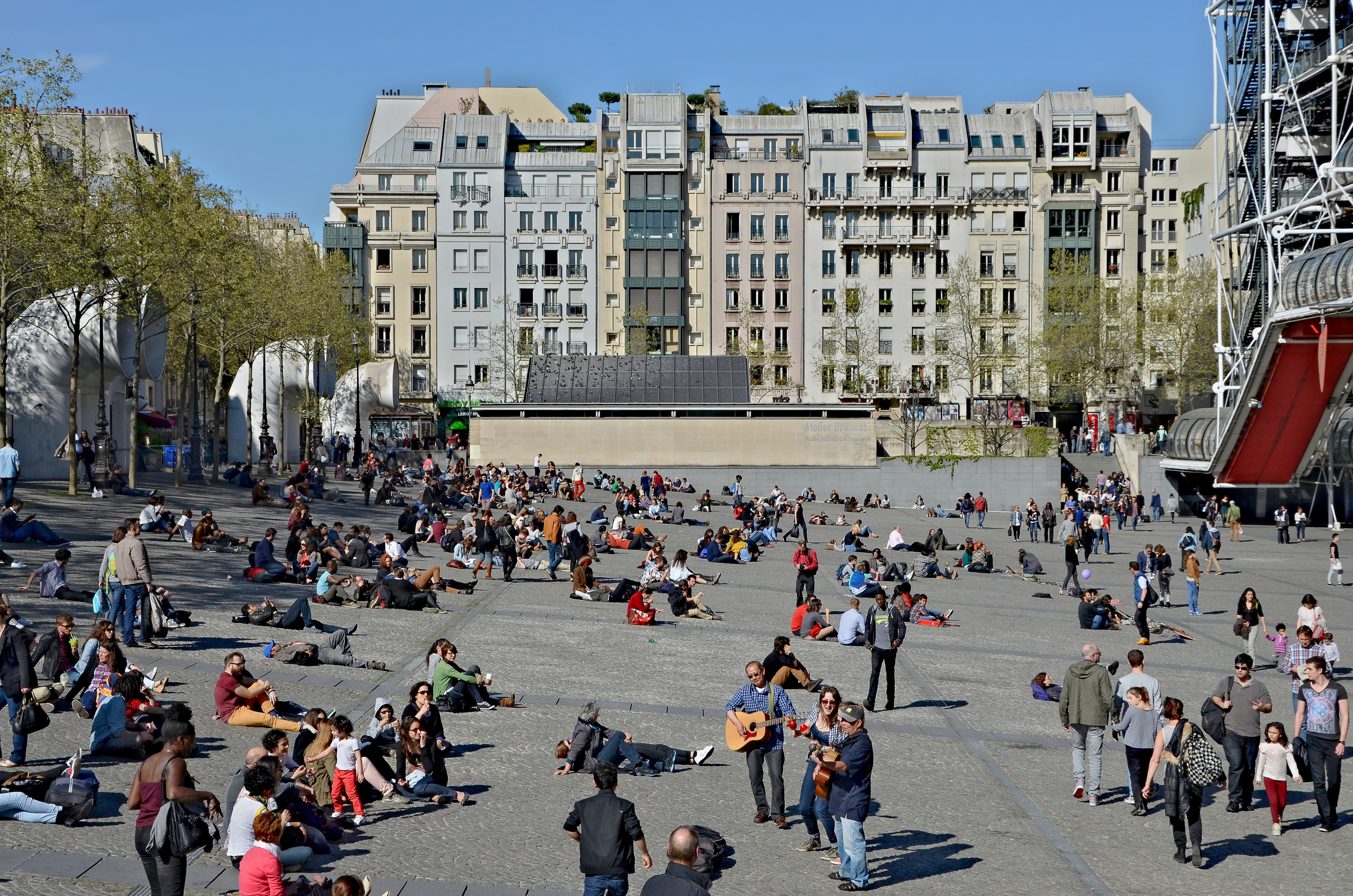 Esplanade of the Center Georges-Pompidou, as seen from rue Saint-Merri Paris (4th arr.)